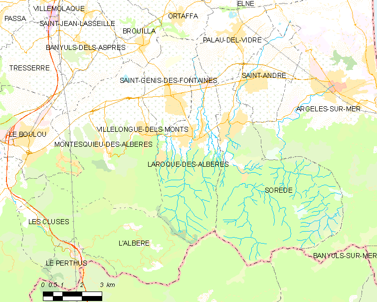 Map of French municipality